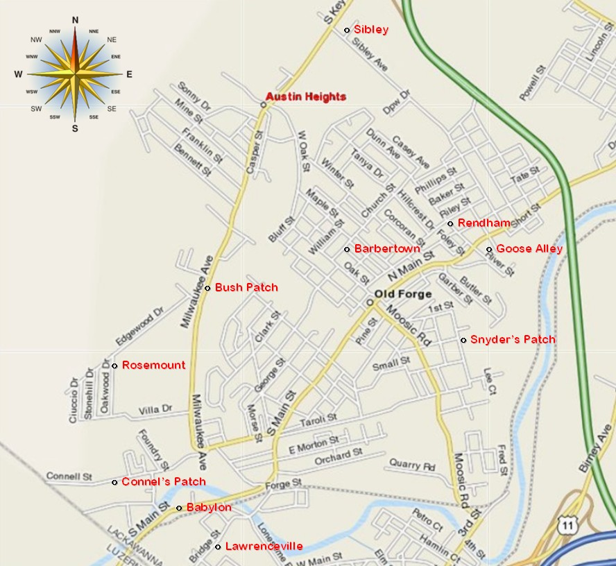 Street Map of Old Forge, Pennsylvania